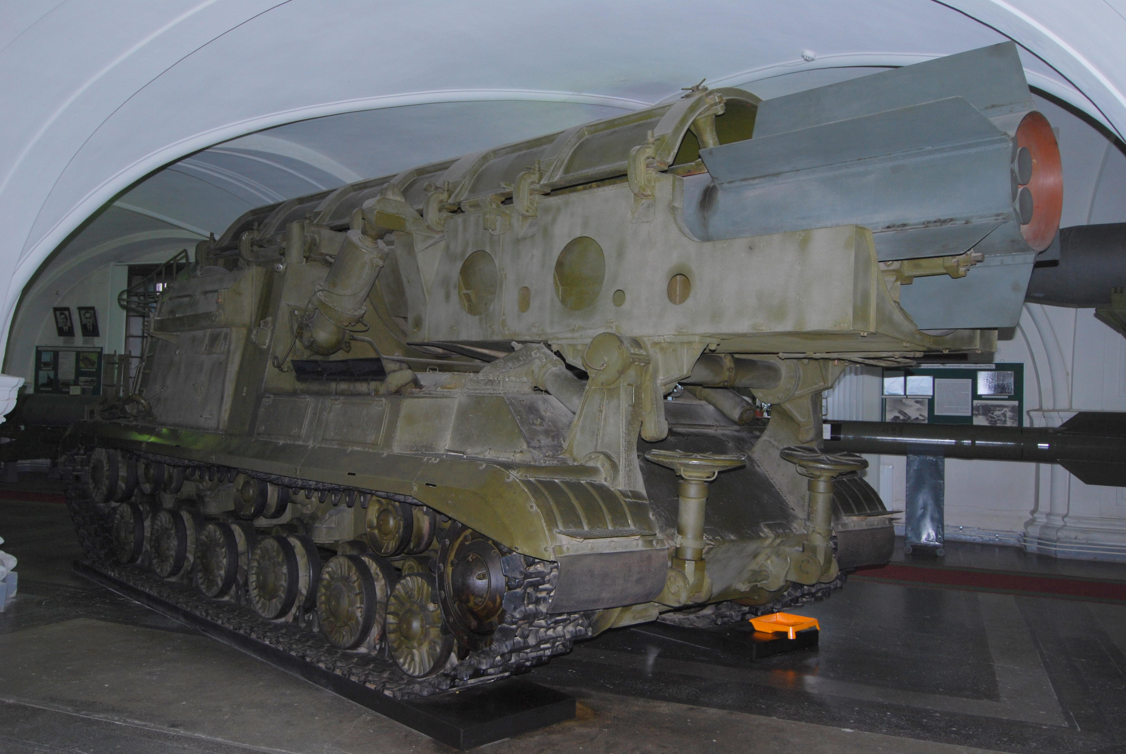 Rear view of 2P4 Transporter-Erector-Launcher with 3R2 missile of 2K4 missile complex «Filin» in Saint-Petersburg Artillery museum